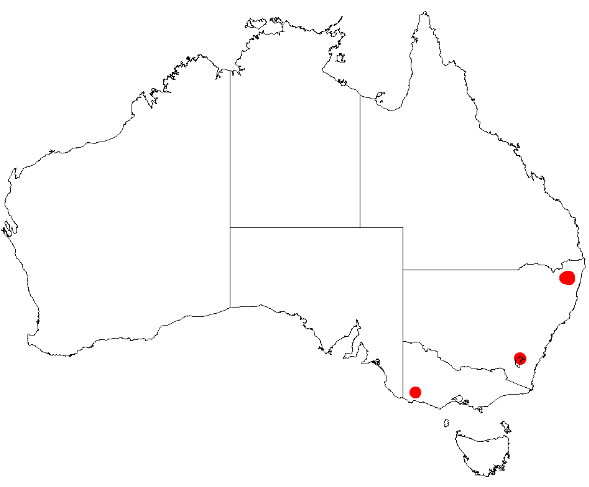 Acacia cangaiensis Occurrence data from Australasia Virtual Herbarium downloaded from on 8 December 2018